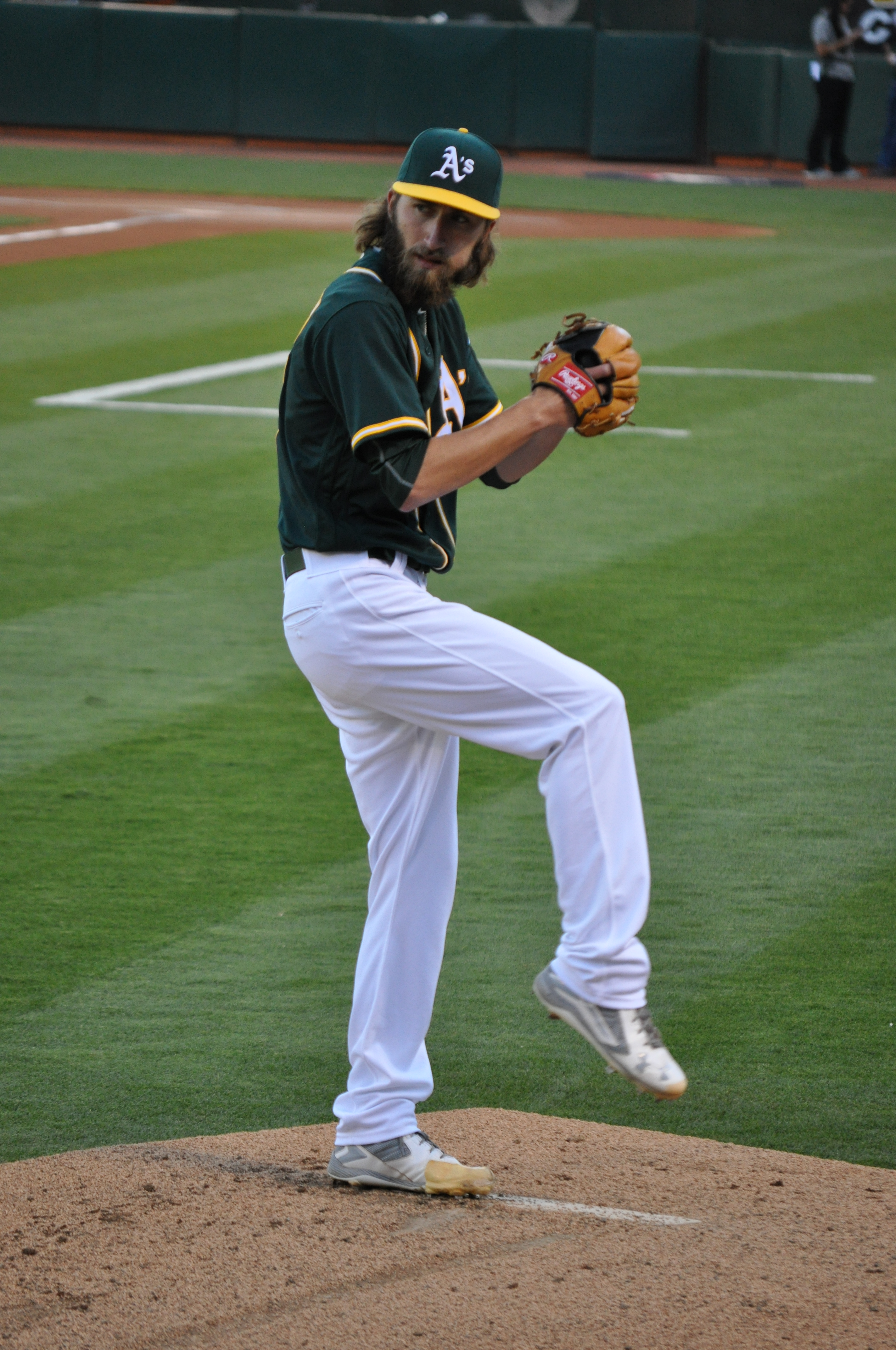 Overton warms up before his 07-19-16 start against the Astros